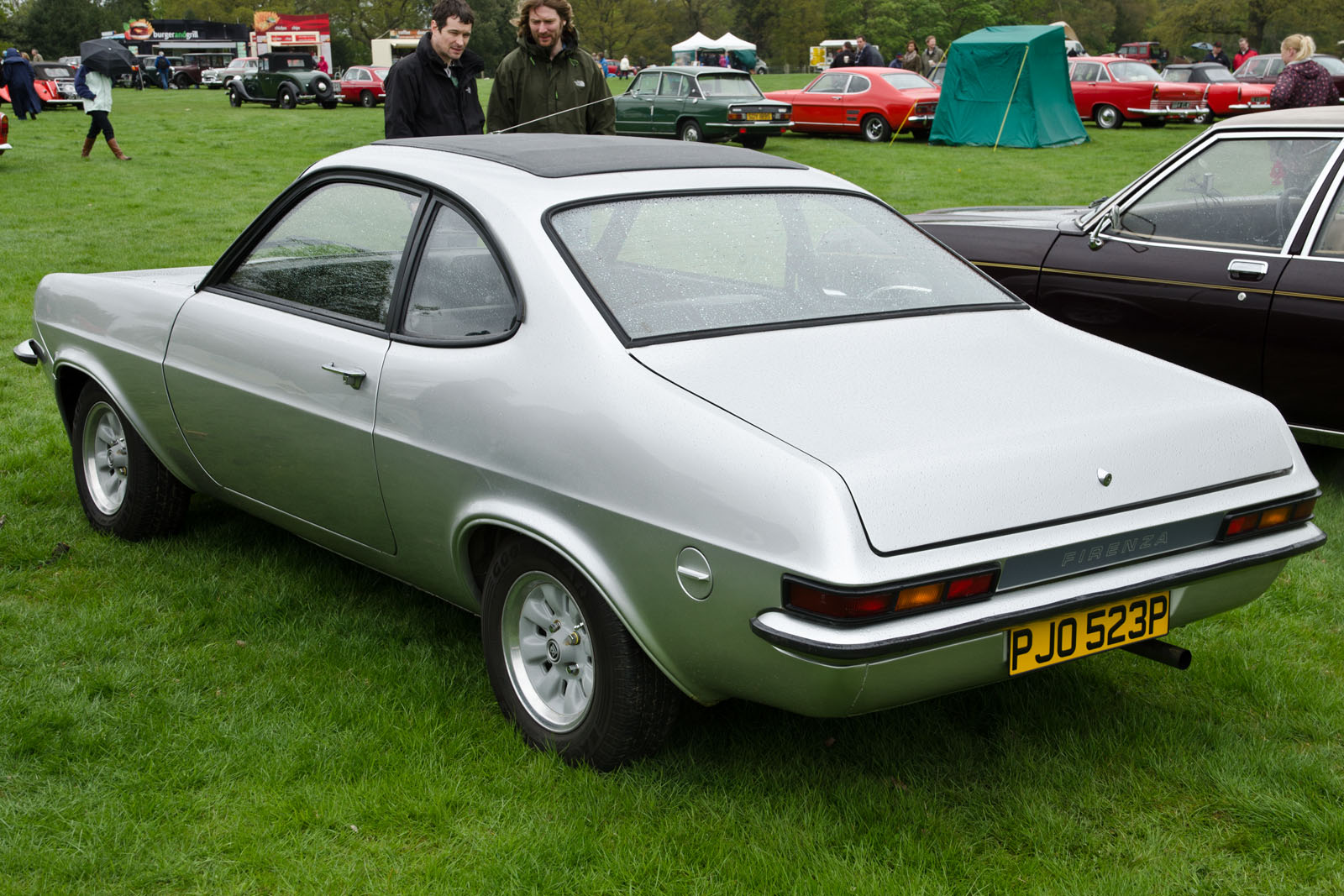 Vale Royal Classic Car Show at Arley Hall 12/05/2013